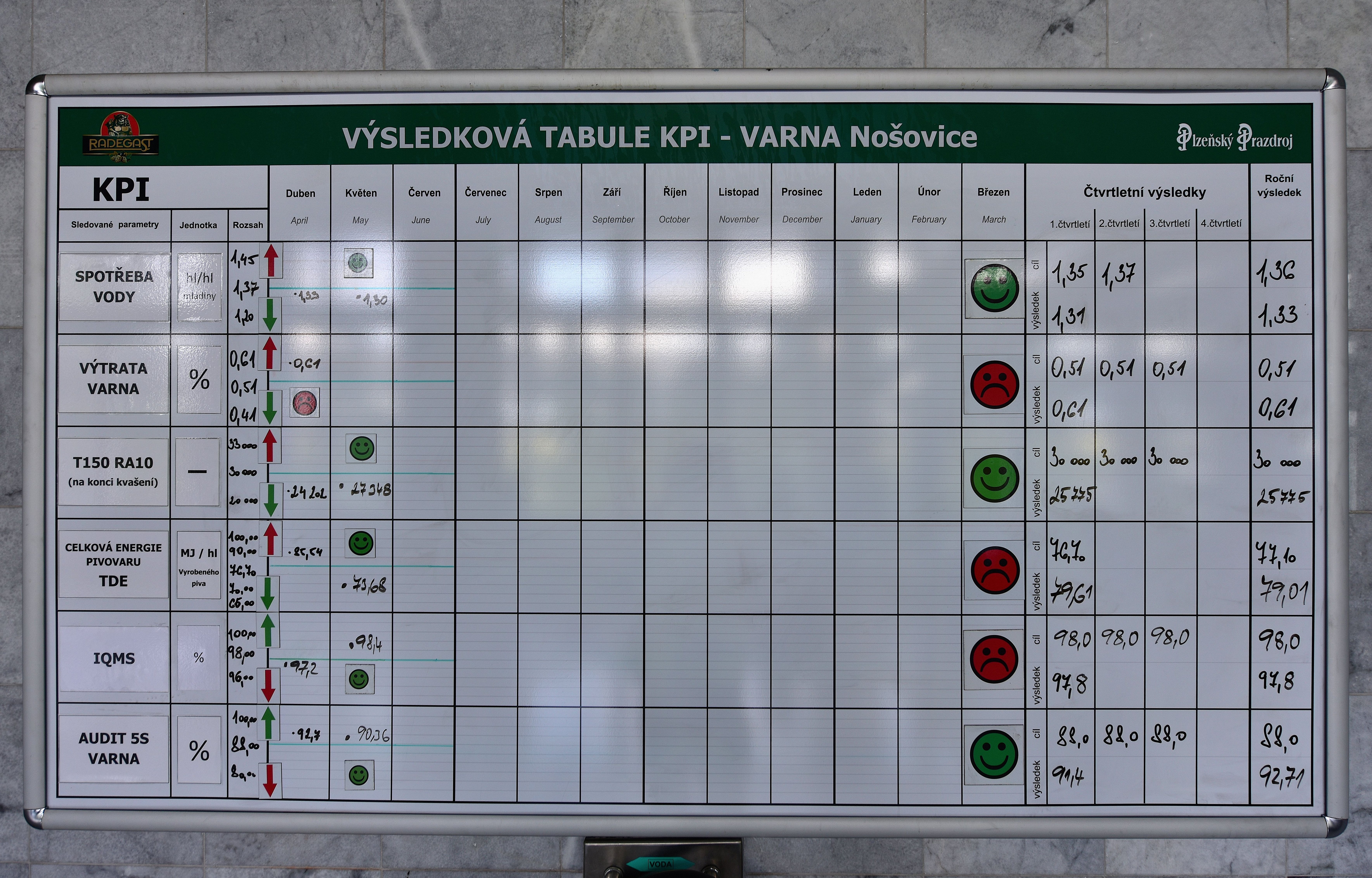 KPI board. Radegast Brewery in Nošovice